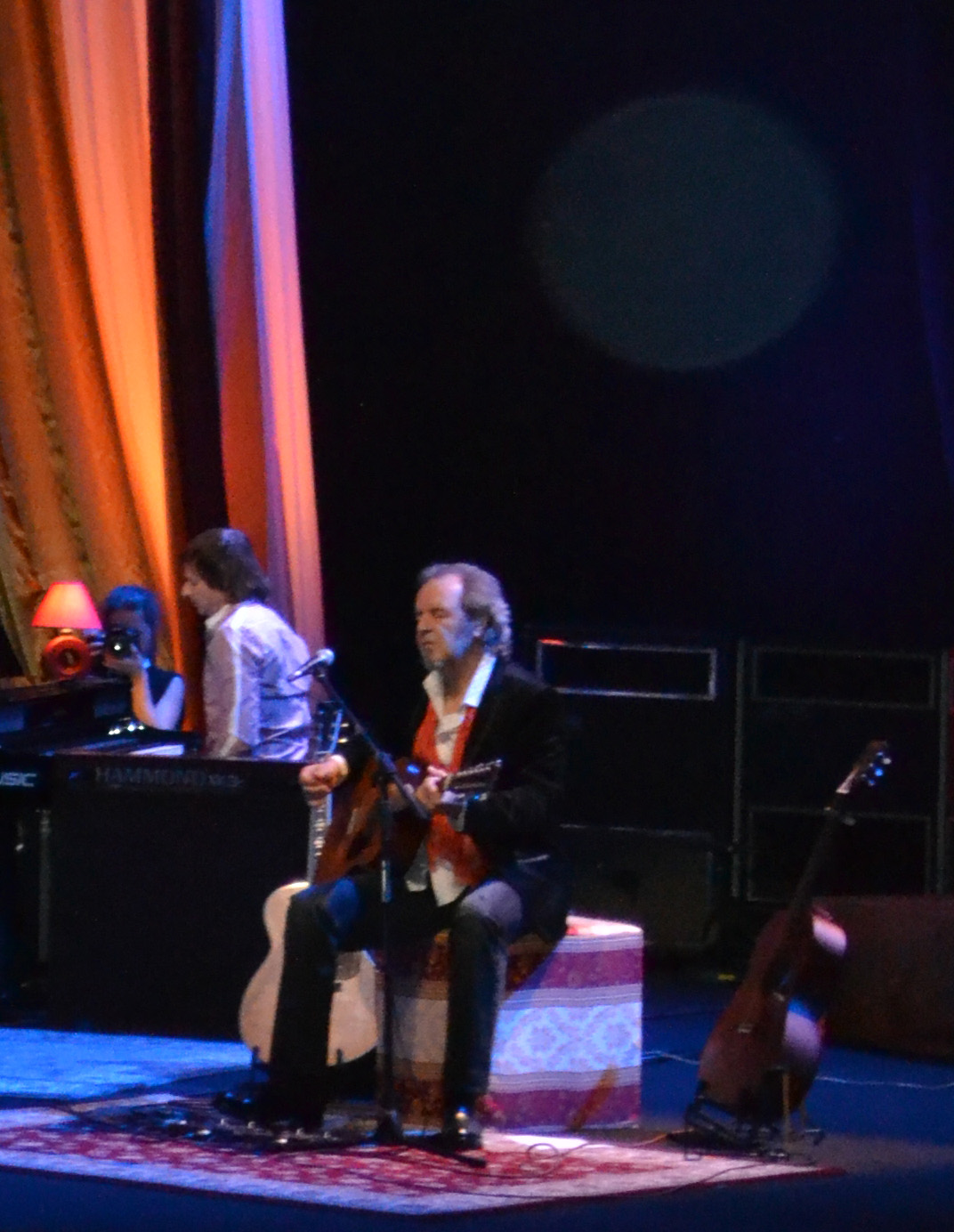 Hus during the concert of Parni Valjak in Sava Center in Belgrade, 8th March 2012.